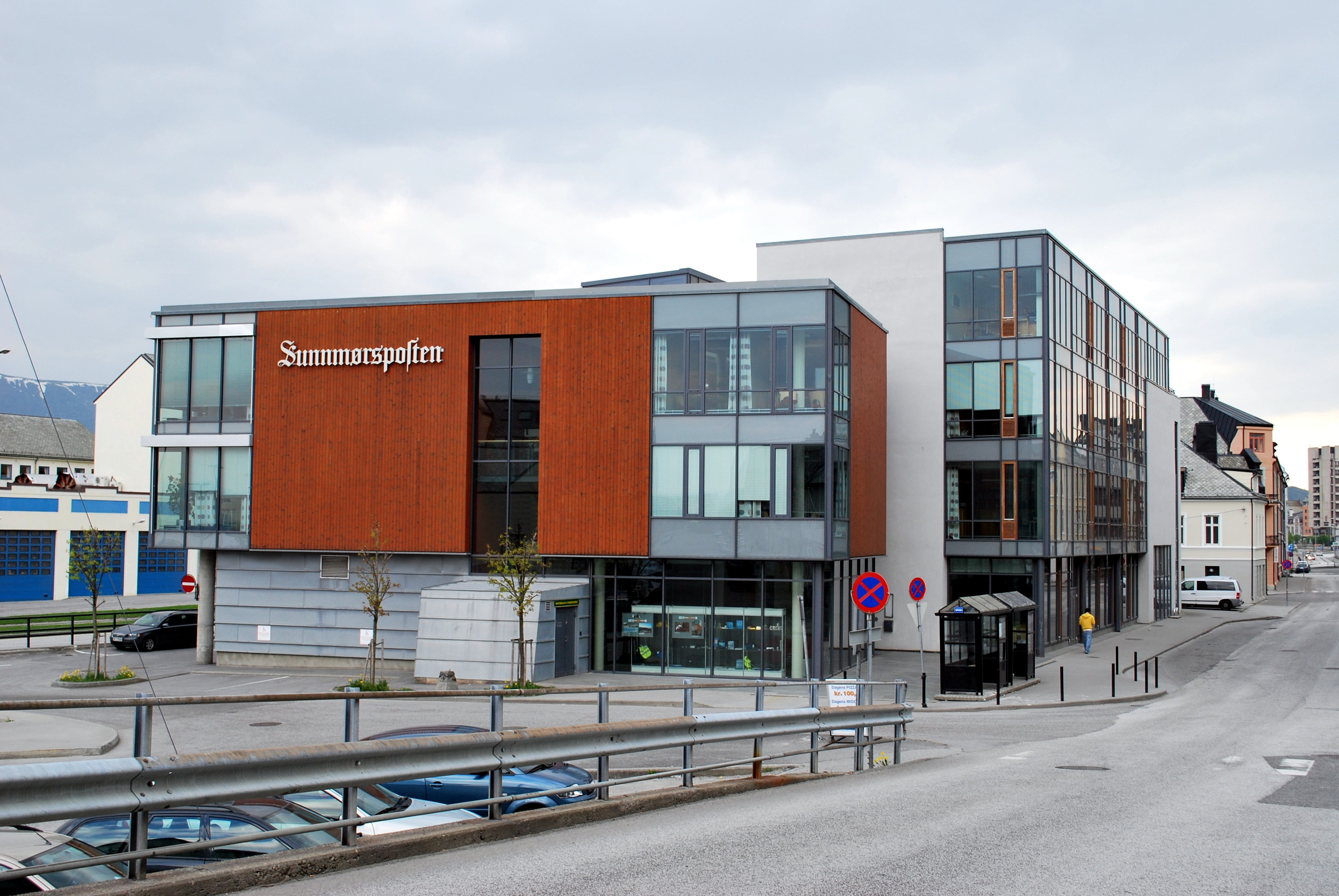 Røysegata 10, Sunnmørsposten media house, Ålesund.